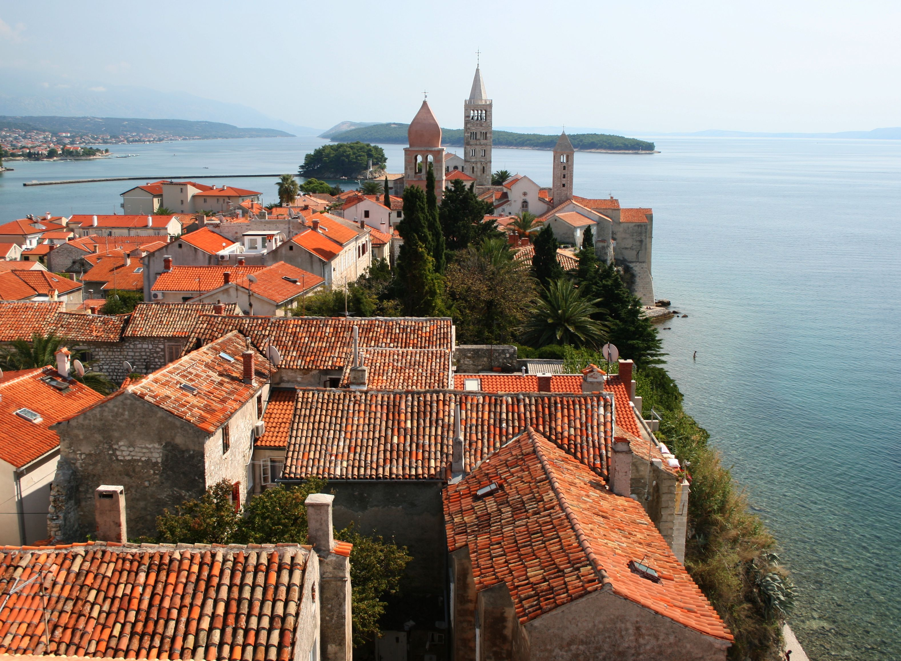 Three of the towers in the distance, I'm dangling out of the window on the fourth!